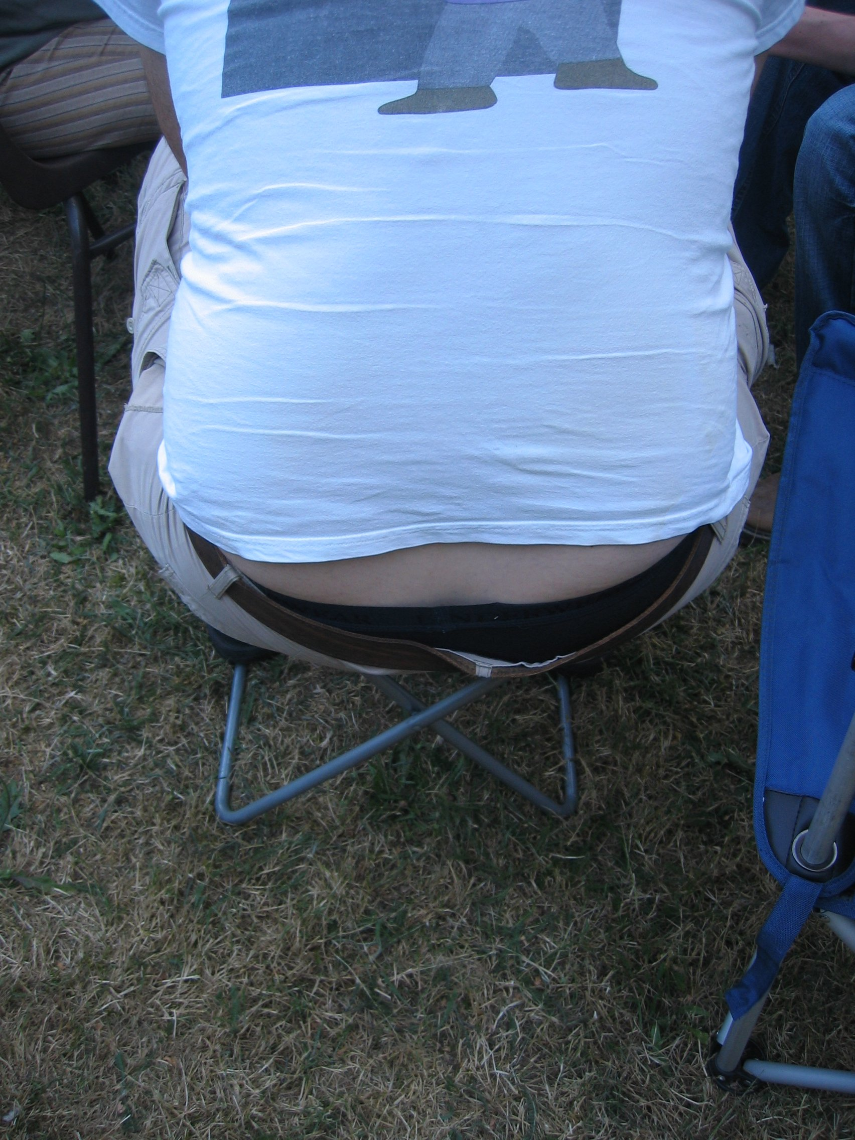 Exposed backside cleavage, or "Builders bosom"